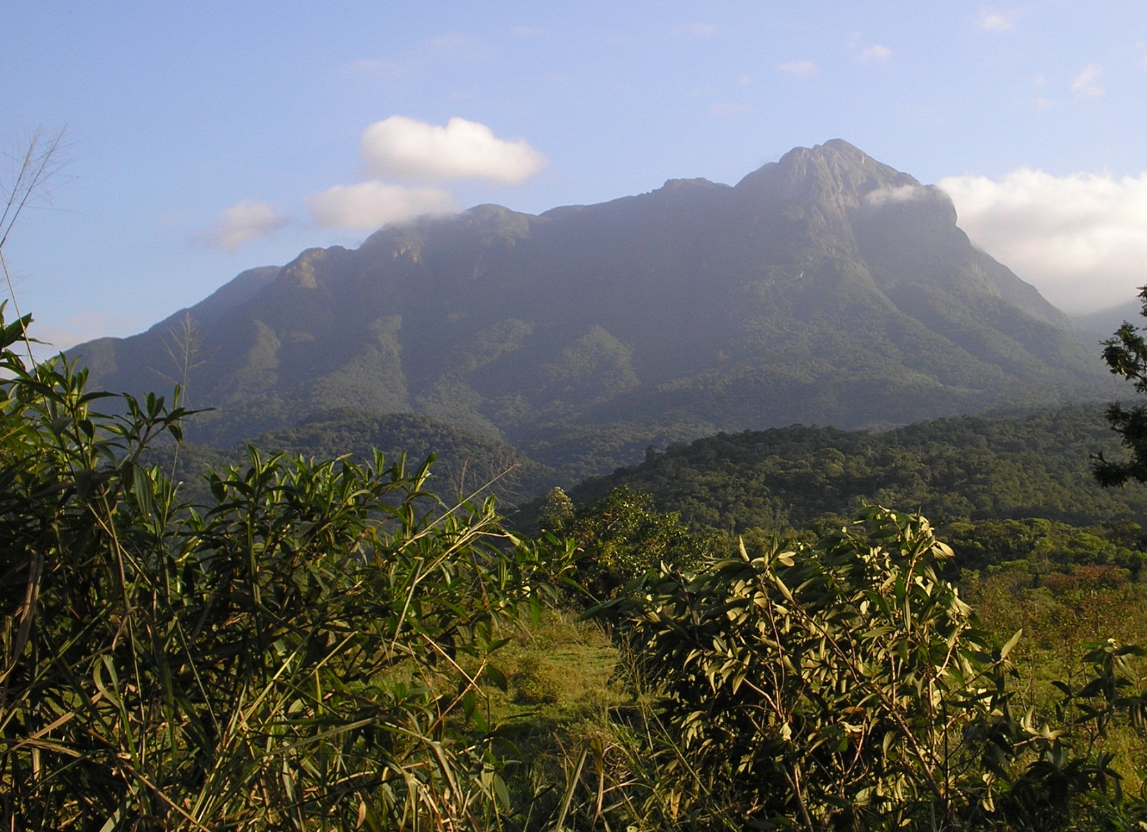 Marumbi Peak of the Serra do Mar — in Paraná, Brasil-Brazil. Atlantic Forest ecoregion flora.